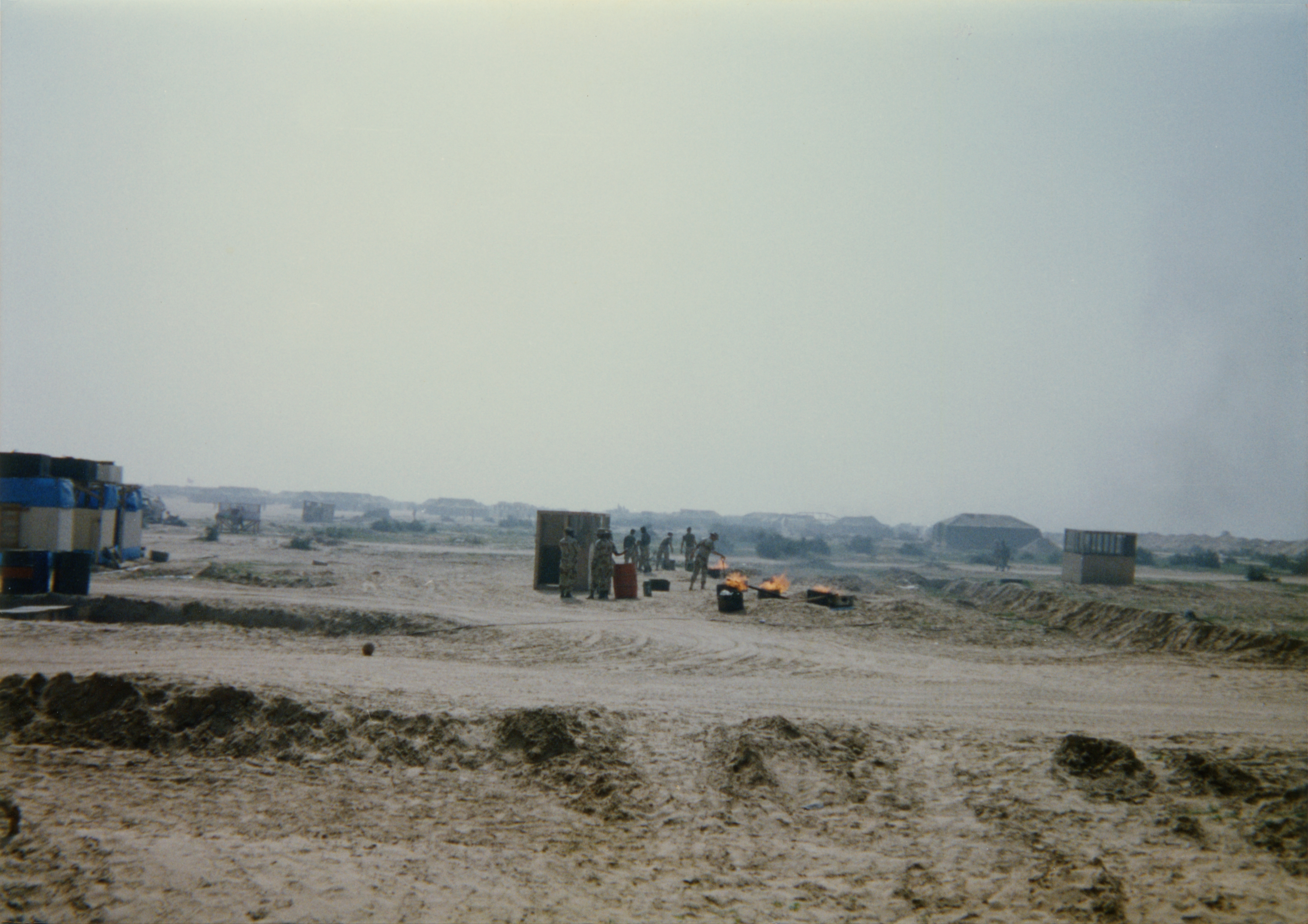 Marines burning waste in burn pits in the 1st Marine Division Support Area in Saudi Arabia during the Gulf War in 1991. Most of the burn pits shown were made from metal 55-gallon drums cut in half. Next to the burn pit are wooden outhouses. The square wood structure on the right is also an outhouse.